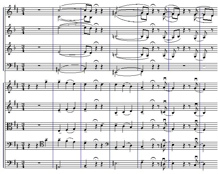 Score of Tchaikovsky 6th Symphony, 4th movement (beginning)